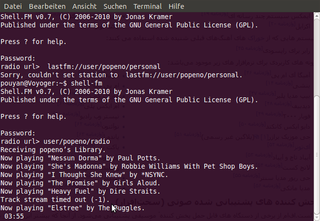 Shell-fm Screenshot on Ubuntu 10.10